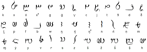 Avestan alphabet (consonants) Kurdî: ئەلفوبێی ئەوێستایی (کپەکان)